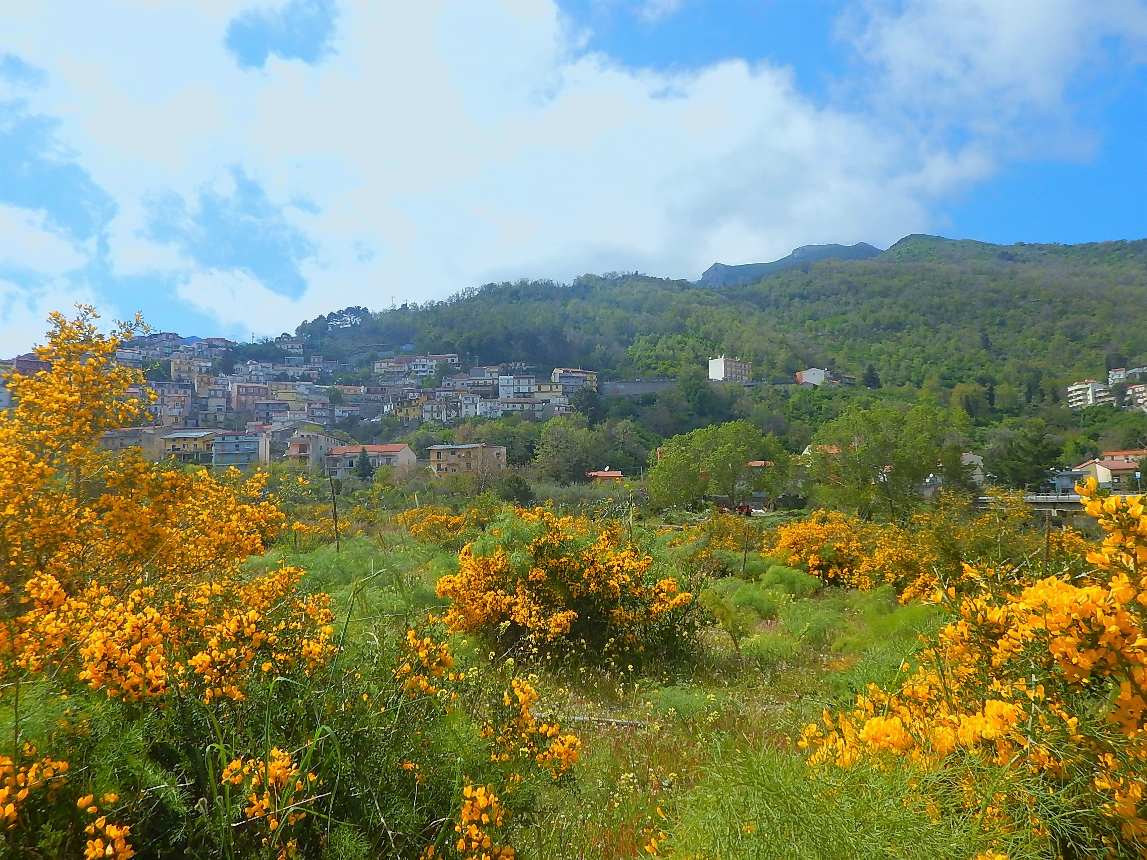 brooms in flower in the Patrì river at Fondachelli Fantina, Sicily